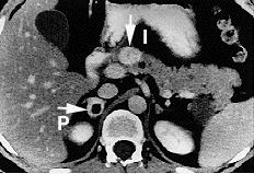 A symptomatic patient with pheochromocytoma and islet cell tumor of the pancreas. A small right pheochromocytoma with a necrotic center (P) is seen. In addition, an intensely enhancing mass is present in the neck of the pancreas (I). Two small pancreatic cysts are also seen but the bulk of the pancreas is spared. Pancreatic islet cell tumors are associated with pheochromocytomas and are generally not accompanied by cystic pancreatic disease